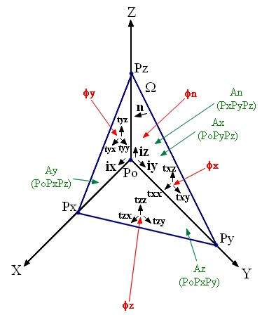 Cauchy theorem, generic fluid domain in R3.